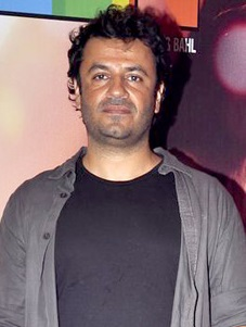 Vikas Bahl at QUEEN success party